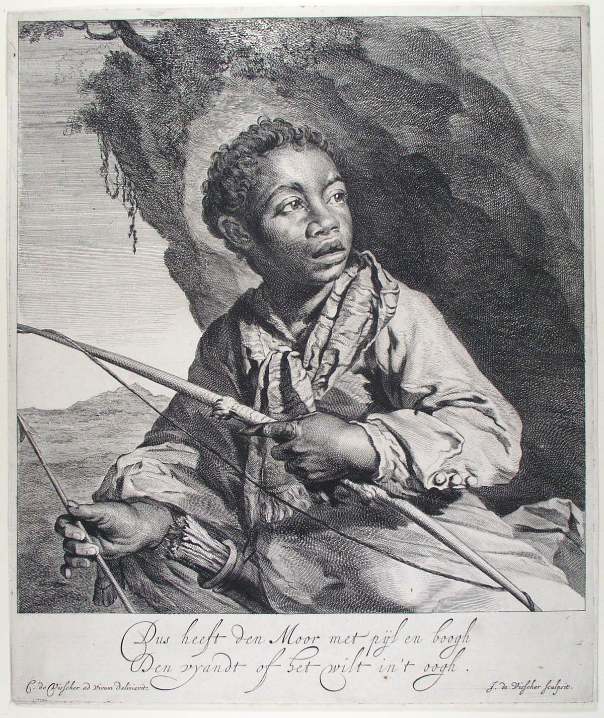 The "Moor", or negro, accompanied by a rhyme: The moor, equipped with bow and arrow, keeps an eye on enemies or wild (animals).